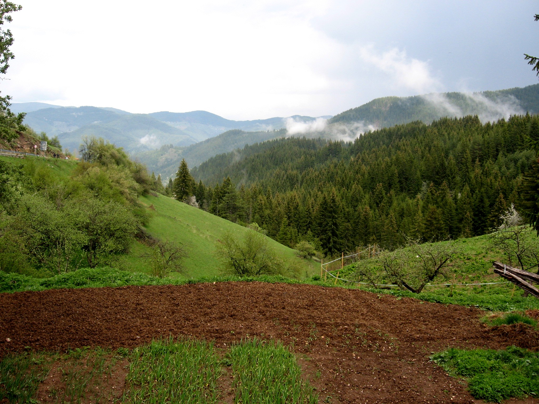 Foto Gela to Shiroka Laka